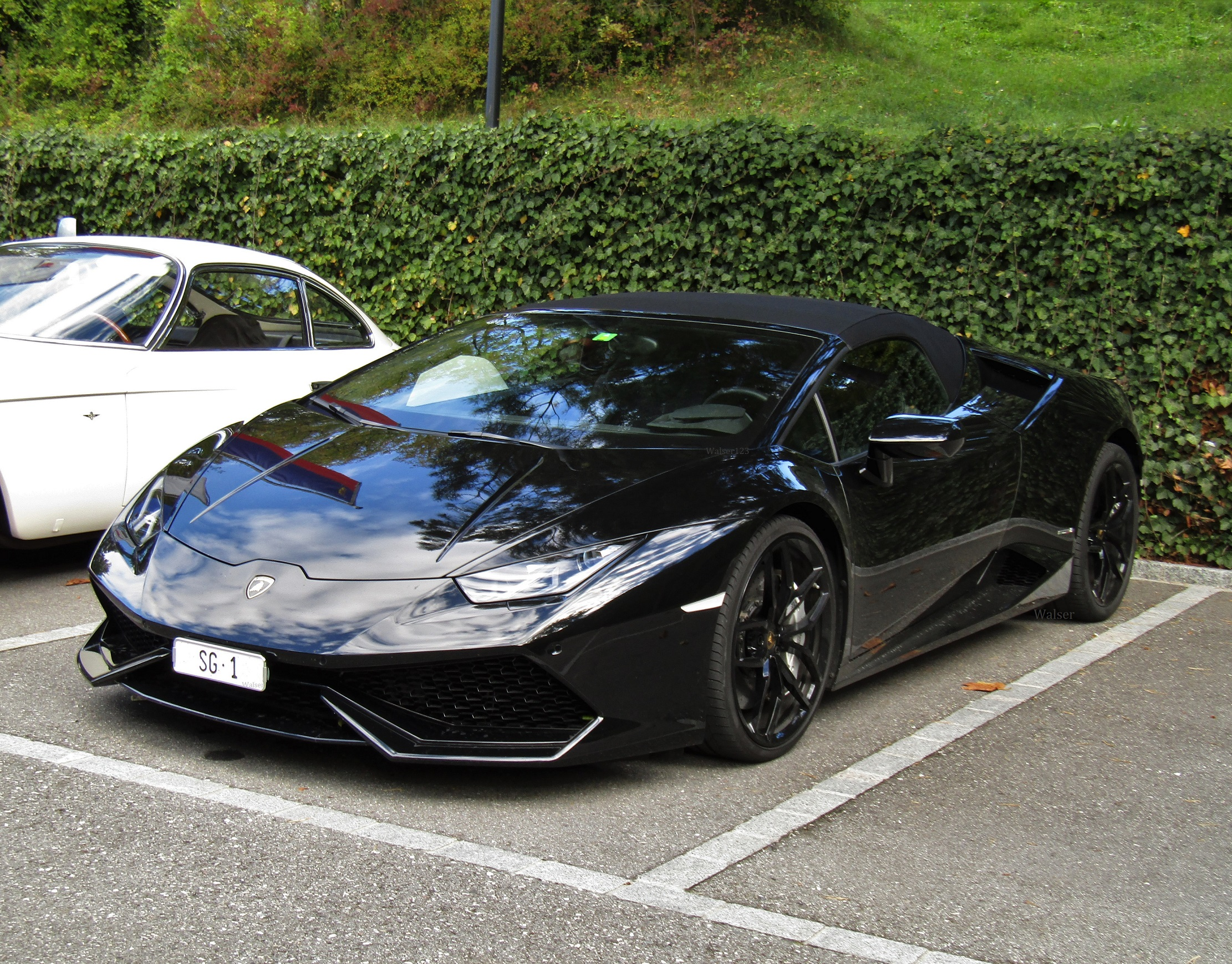 Swiss plate SG 1, Lamborghini, seen in Vaduz, FL